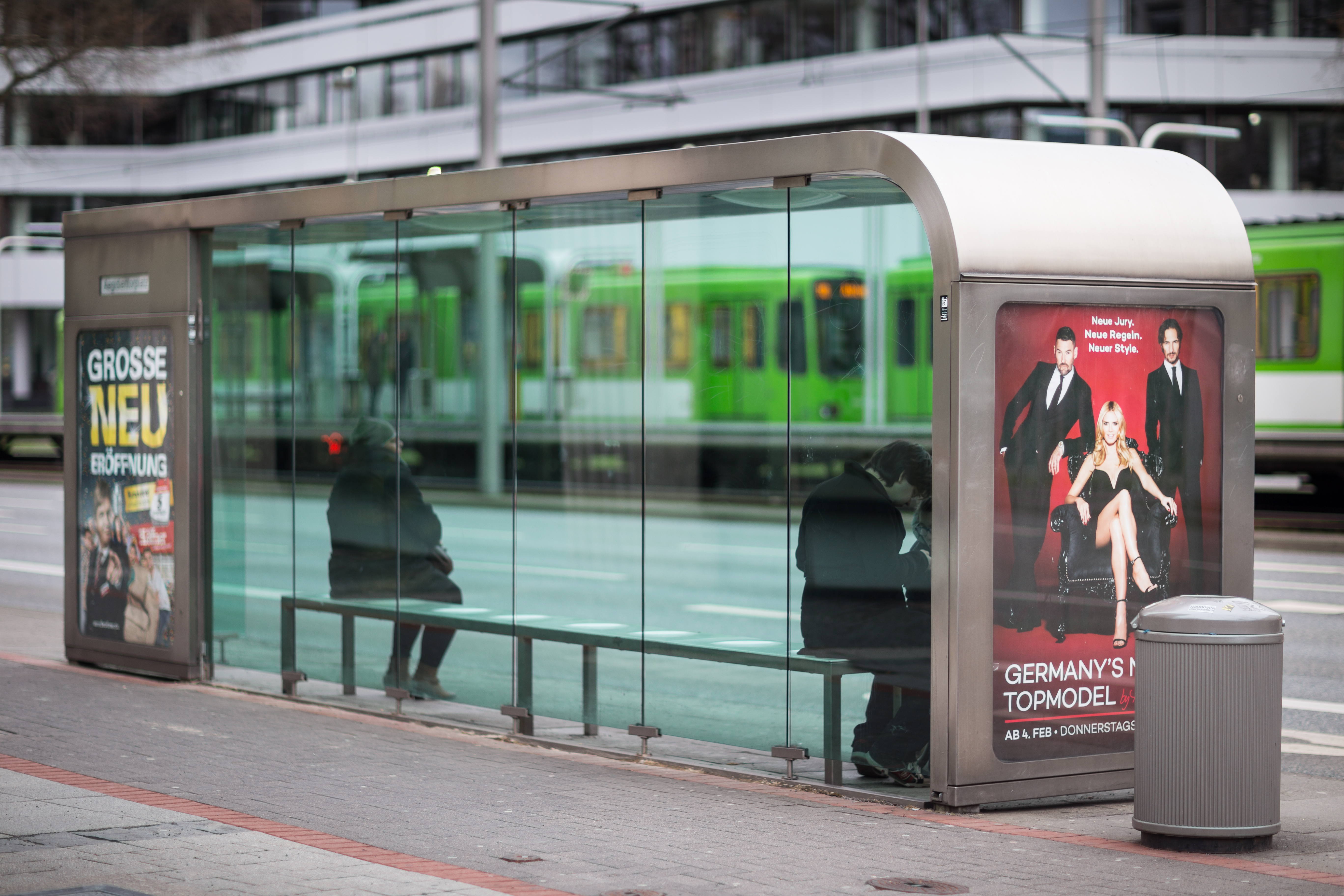 Bus station Aegidientorplatz, designed by Jasper Morrison as part of the BUSSTOPS art project. The station is located at Aegidientorplatz square / Schiffgraben in Mitte quarter of Hannover, Germany.